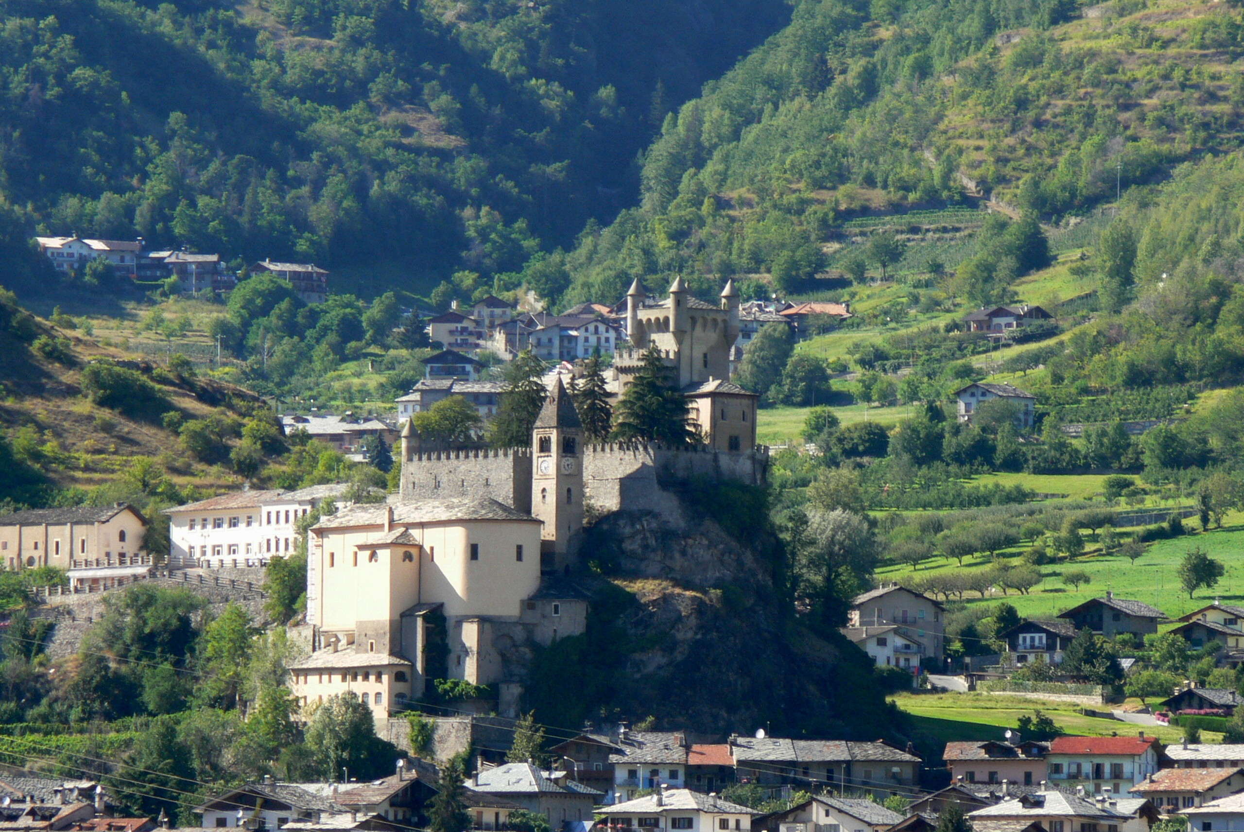 Saint-Pierre ( Aosta Valley ). Castle and church.